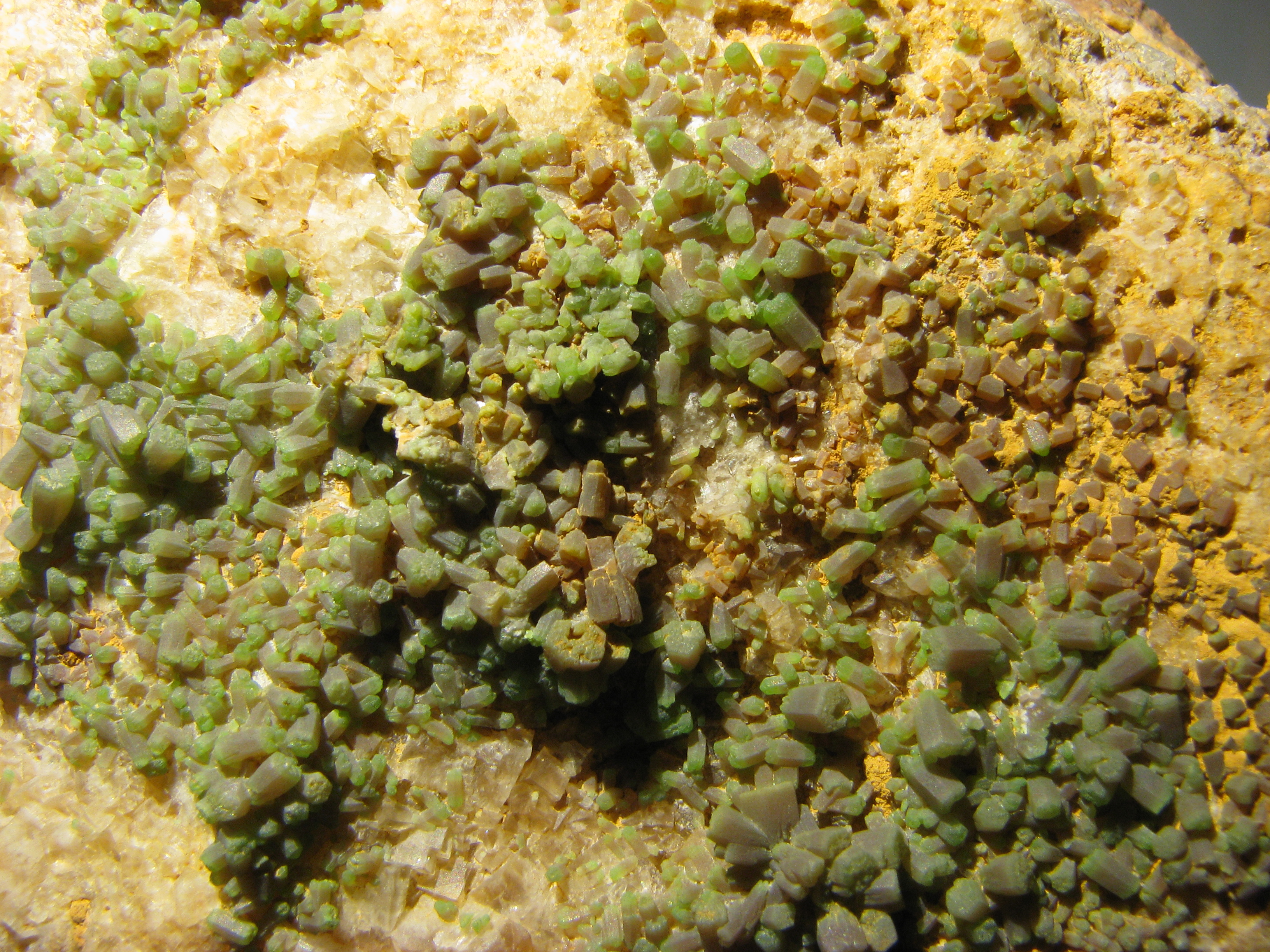 crystals of Pyromorphite on matrix, from Clermont Ferrand (France)